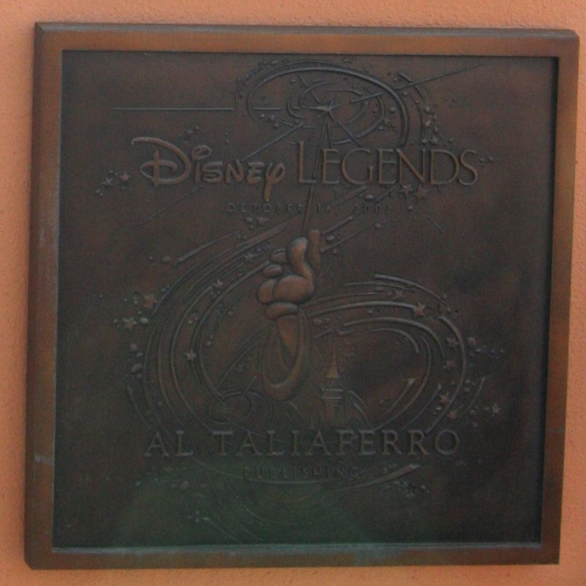 Al Taliaferro - Disney Legends